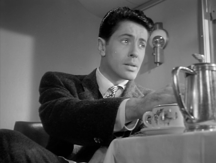 Alfred Hitchcock's "Strangers on a Train" trailer. Farley Granger Bande-annonce du film "L'Inconnu du Nord-Express" d'Alfred Hitchcock. Farley Granger